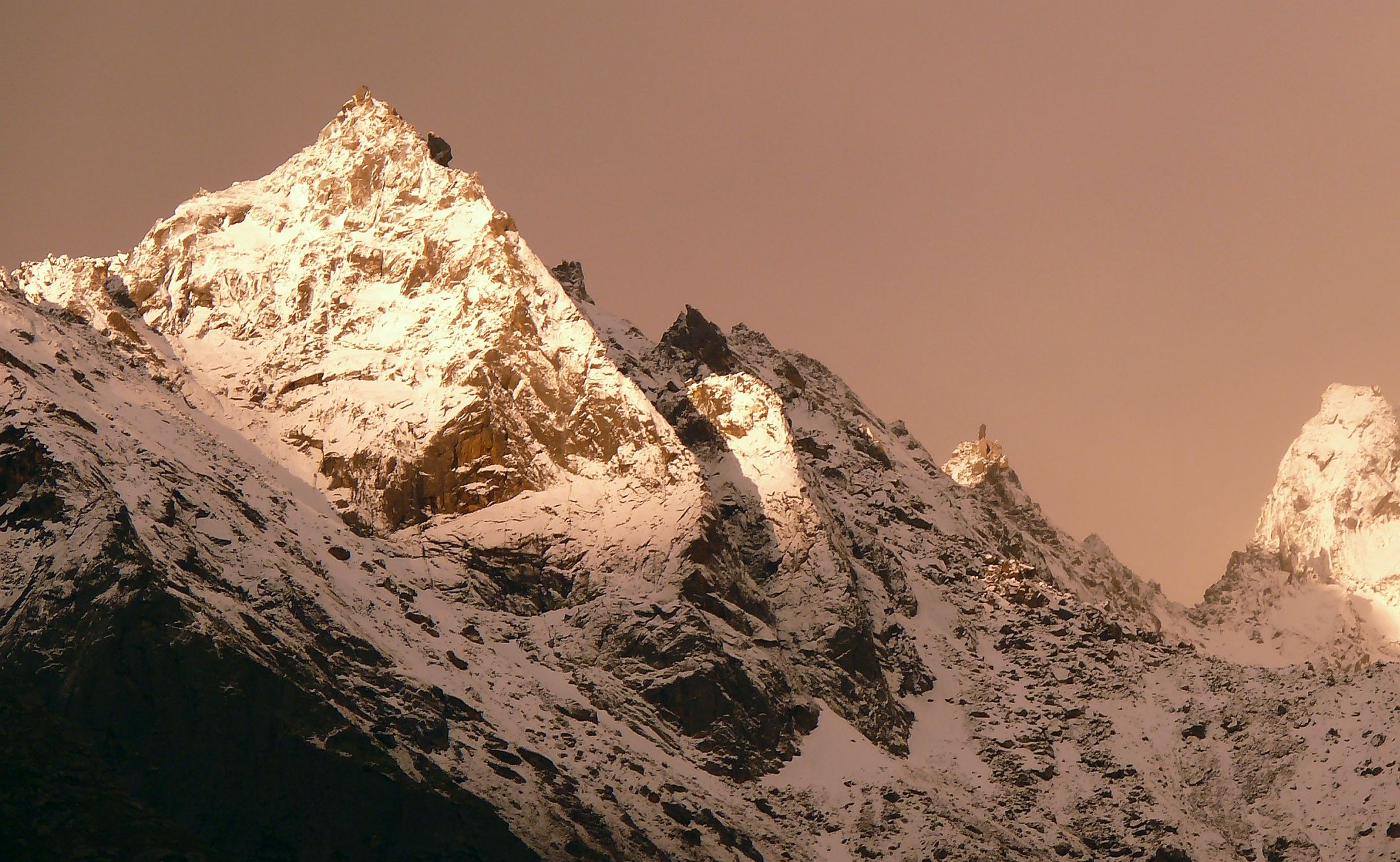 Mount Kinner Kailash (6050 m) dominates this region, it has religious significance for a huge Monolithic pillar " the representation of Lord Shiva which is a 79 feet vertical rock formation that resembles a Shivalinga and changes color as the day passes. This is one of the mythical abodes of Lord Shiva.